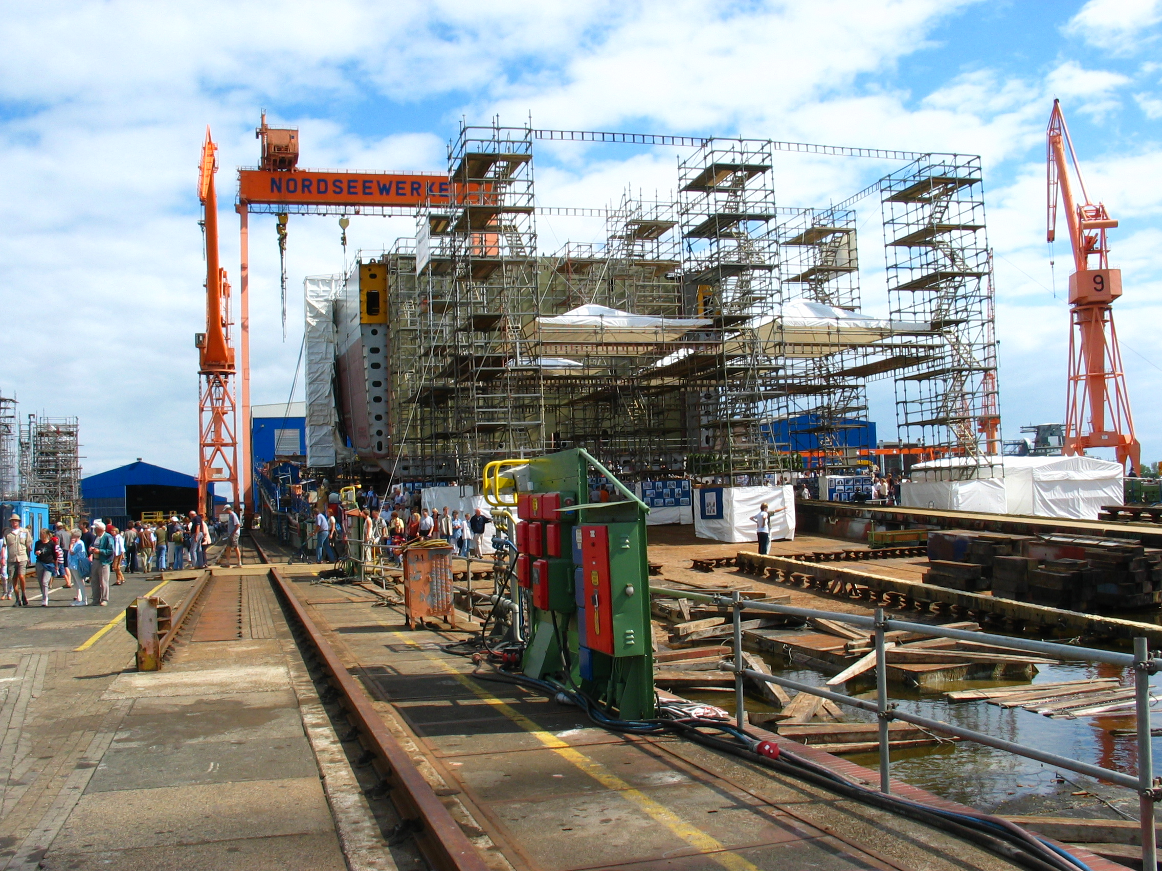 Nordseewerke Shipyards in Emden, Germany.